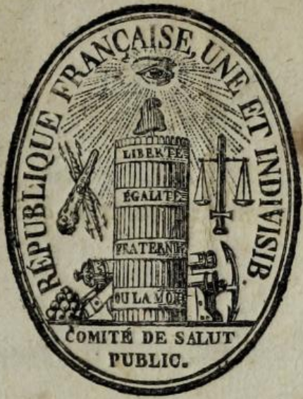 Emblem of the Committee of Public Safety